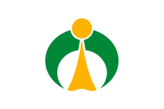 Flag of Shiso Hyogo